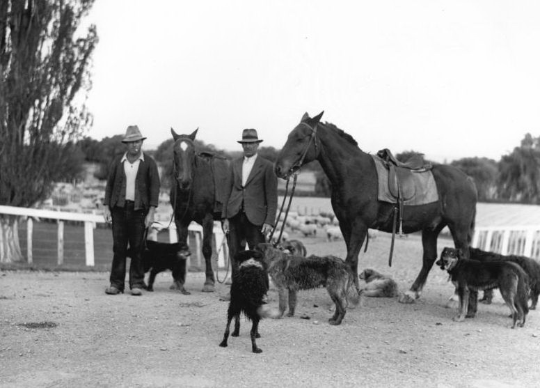 Until the First World War, when motor vehicles became more widely available, New Zealand's development relied largely on the power of horses. While early economic development was based on income from meat and wool, it has been said that ‘New Zealand was built as much on the horse’s as the sheep’s back’. The first horses in New Zealand were a stallion and two mares, brought from Australia by the missionary Samuel Marsden. They arrived at Rangihoua in the Bay of Islands on 22 December 1814. Marsden's companion J.L. Nicholas believed the settlers would benefit greatly from 'so serviceable and necessary an animal as the horse'. Draught horses were used for heavy work such as hauling and ploughing. Light horse breeds are more active, and were used mainly for riding or pulling light loads. Ponies, which are able to thrive on poorer quality pastures, were bred for driving and hauling. According to Nicholas, the local Māori, who had never seen such animals, ‘appeared perfectly bewildered with amazement’, and regarded them as ‘stupendous prodigies’. Another account, possibly apocryphal, tells of the first time a group of Māori saw a horse. It was swimming ashore from a ship. ‘We who were gathered on the beach immediately ran for our lives, for we knew a great taniwha [water monster] was making straight for us.’ After the chief Tāringa Kurī rode the horse, the tribe bought it and ‘all the members of the tribe … took a ride on the taniwha.’ It was not until the 1840s that the importation of horses began to gain speed. By 1900, there were more than 260,000 horses in New Zealand. By 1911, the horse population reached 404,284 - about one horse for every three people. The image above shows drovers resting their horses and dogs, c.1900 - 1947 Archives Reference: AAQT 6539 38/A2892 R21011144 For updates on our On This Day series and news from Archives New Zealand, follow us on Twitter Material from Archives New Zealand Information